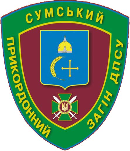 State Border Guard Service Patches of Ukraine